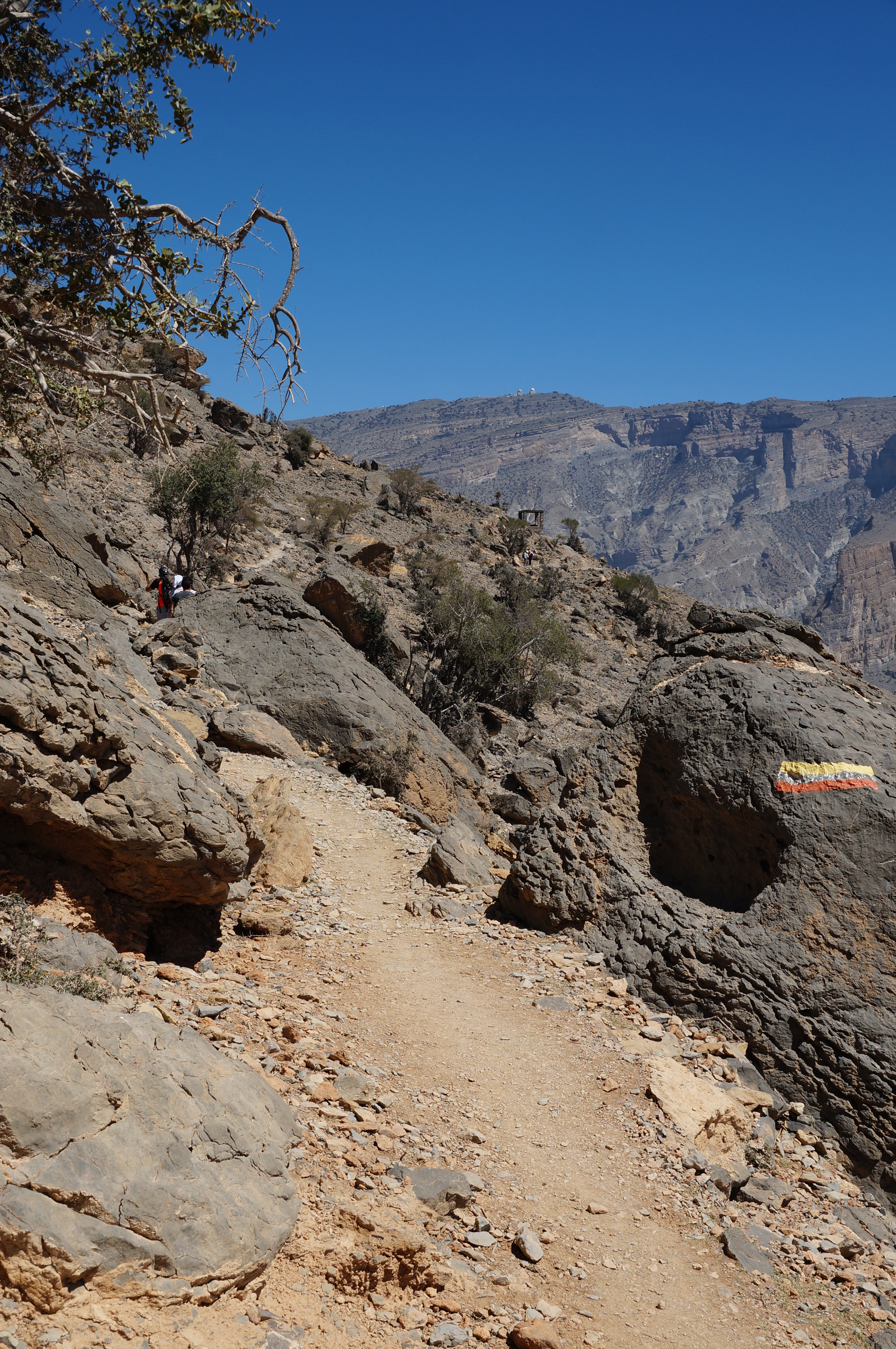 Hiking path on Jebel Shams, Oman